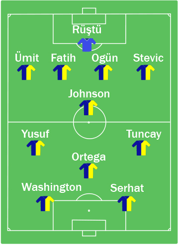 Line-up for the 6-0 Galatasaray match.